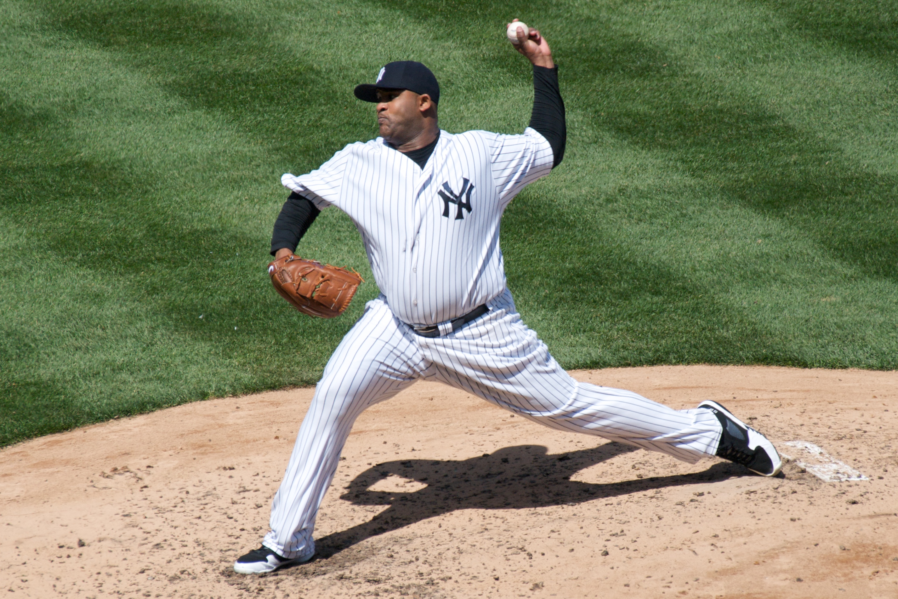 CC Sabathia